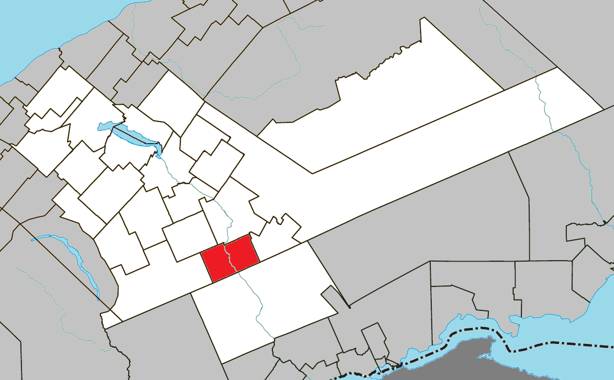 Location of Sainte-Florence, Quebec within La Matapédia Regional County Municipality.